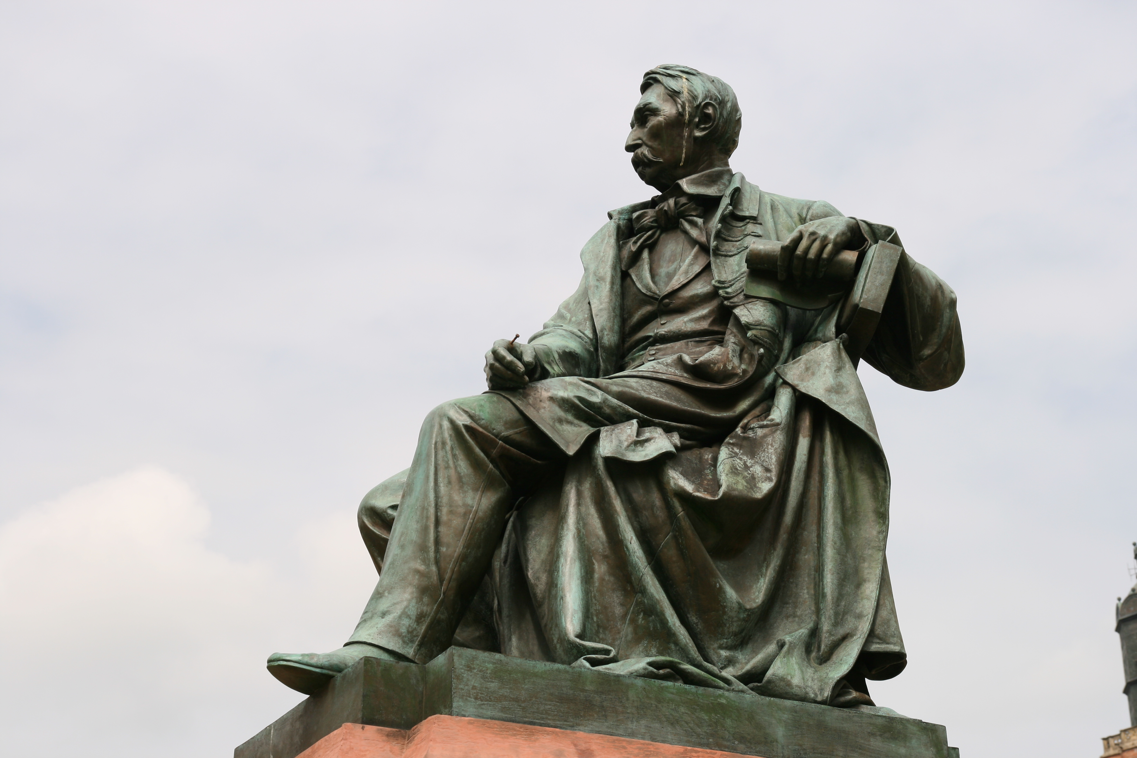 Monument to Aleksander Fredro in Wrocław (Poland). Originally created by Leonard Marconi in 1897 in L'viv, moved to Wrocław in 1956.